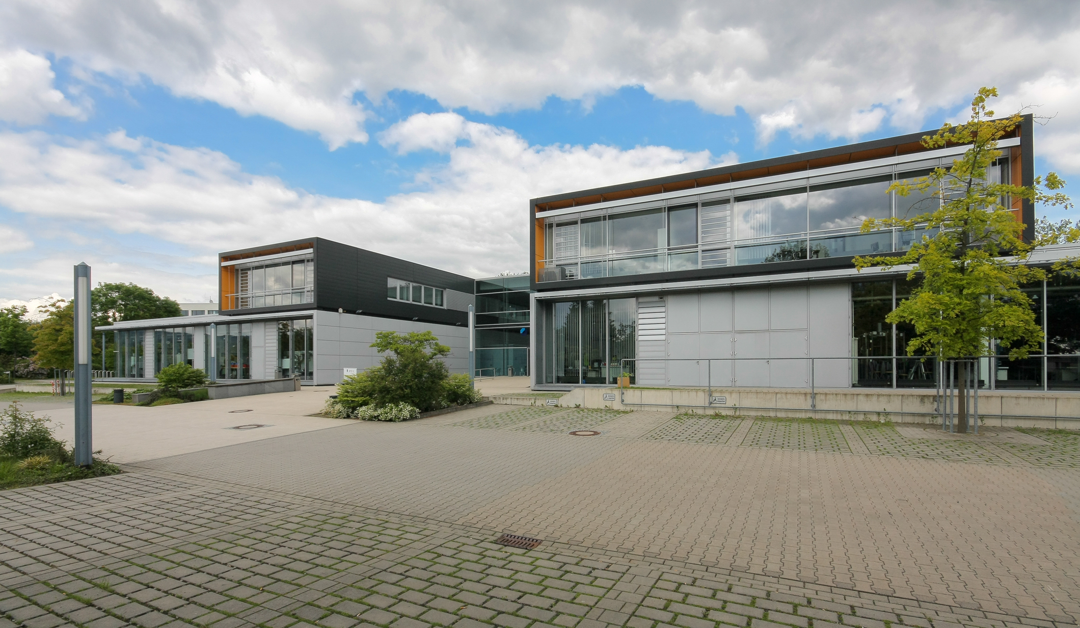 Robert-Werner-Haus (BTZ II), occupational training and technology center in Wiesbaden, Germany